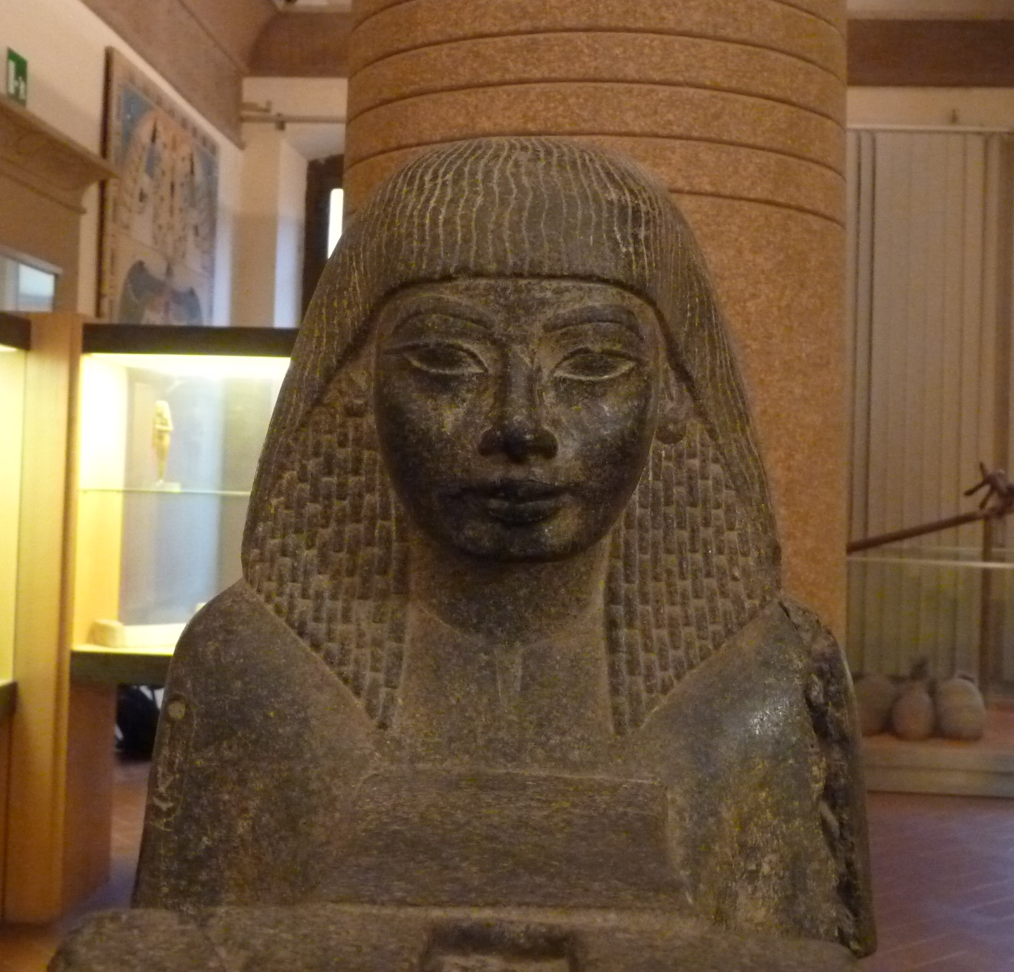 Squatting statue for the overseer of the seals Ptahmose, gift by his son Hj. Ptahmose lived under Amenhotep III and should not be confused with the vizier bearing the same name. Dark granite from Thebes; reign of Amenhotep III, 18th dynasty, New Kingdom. Florence, Museo archeologico nazionale, n. 1791 (Cat. Schiaparelli n. 1506), Room 3.